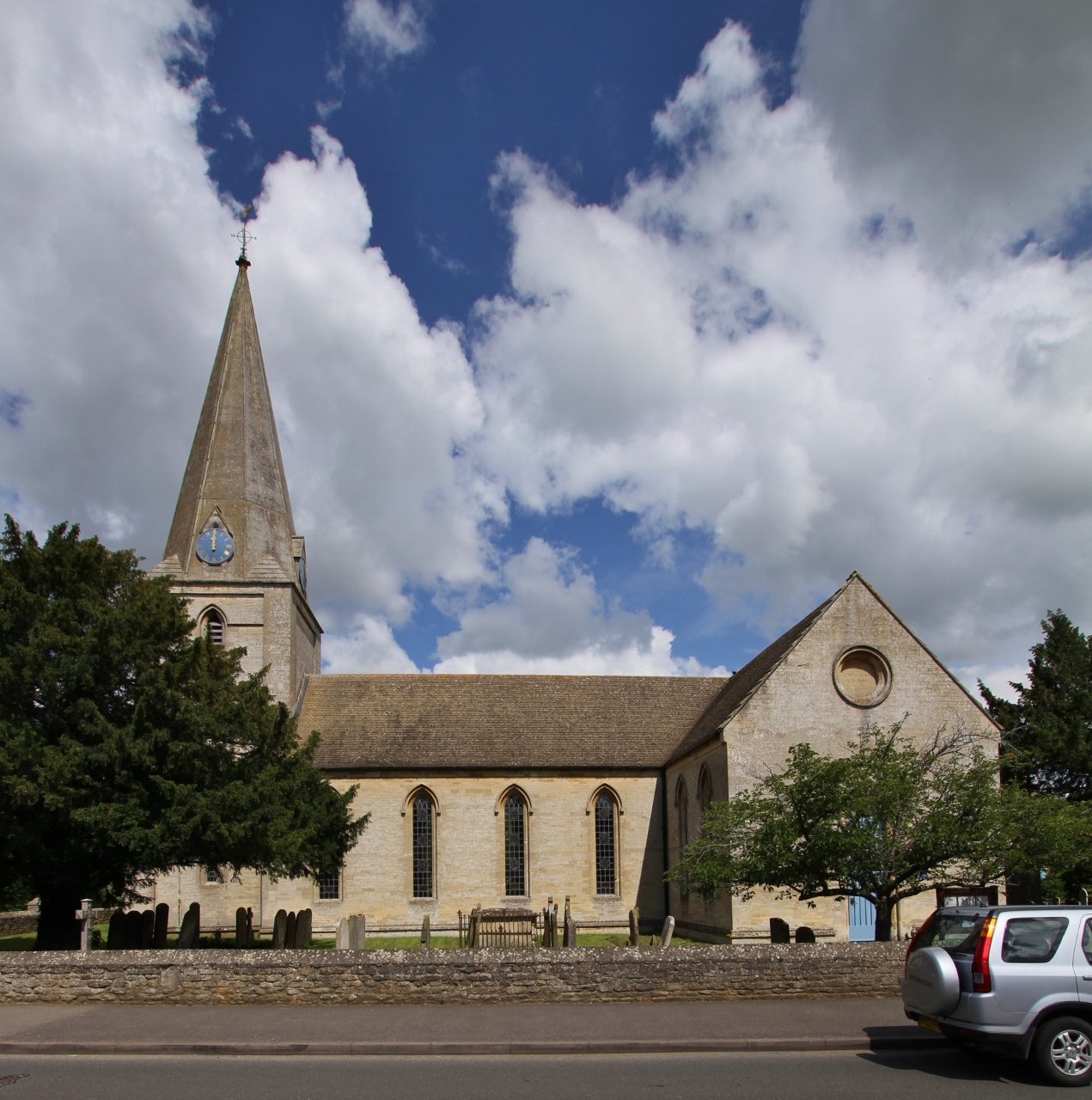 St James' parish church, Aston, Oxfordshire, seen from the south